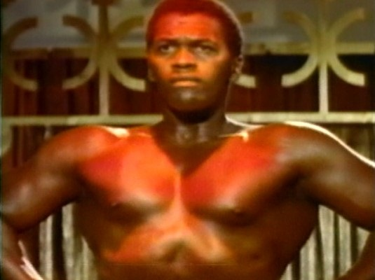 Public domain photograph of Guyanese-born British actor Harry Baird